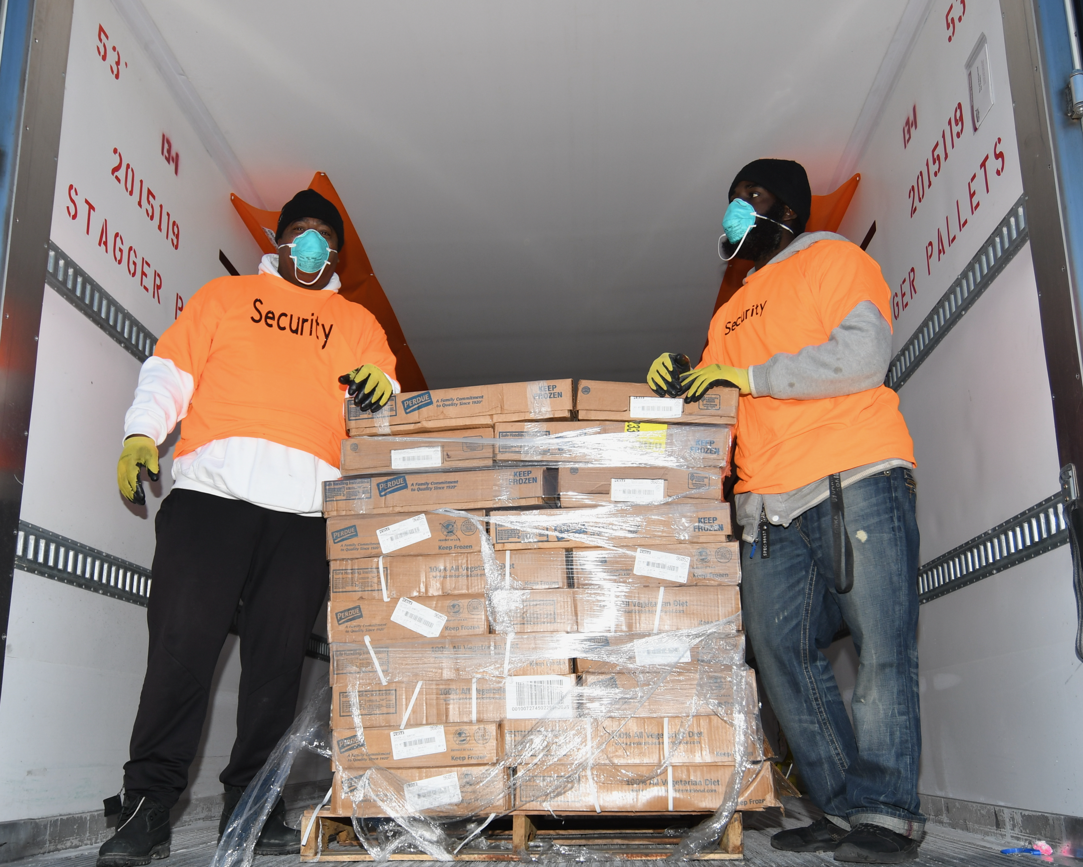 Lt. Governor Rutherford Visits Ark Church for Their Reception of a Delivery of Perdue Chicken for Distribution to Those in Need. by Patrick Siebert at 1263 E North Ave, Baltimore, MD 21202